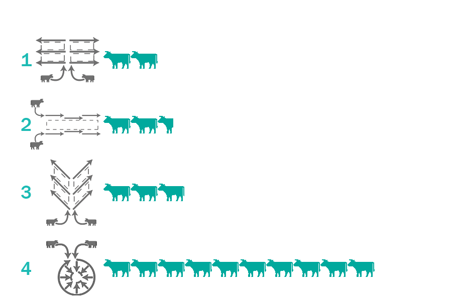 This graphic shows the efficiency of 4 different milking parlors, in relation to how many cows they can milk per hour. Key 1=Bali-Style 50 cows/h; 2=Swingover 60 cows/h; 3=Herringbone 75 cows/h; 4=Rotary 250c cows/h